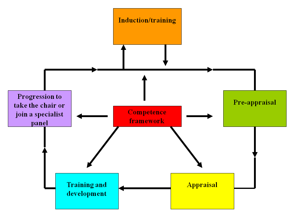 MNTI diagram